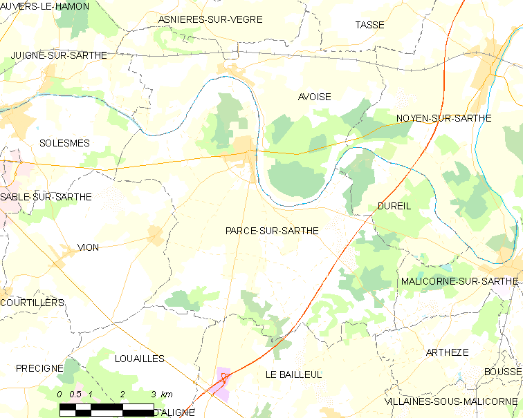 Map of French municipality